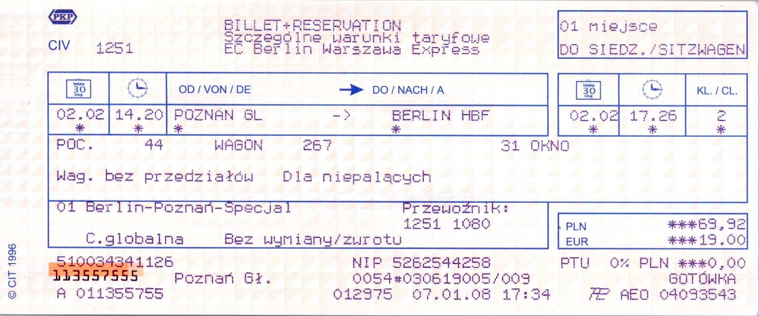 Polish international rail ticket from Poznań to Berlin + reserved seat ticket